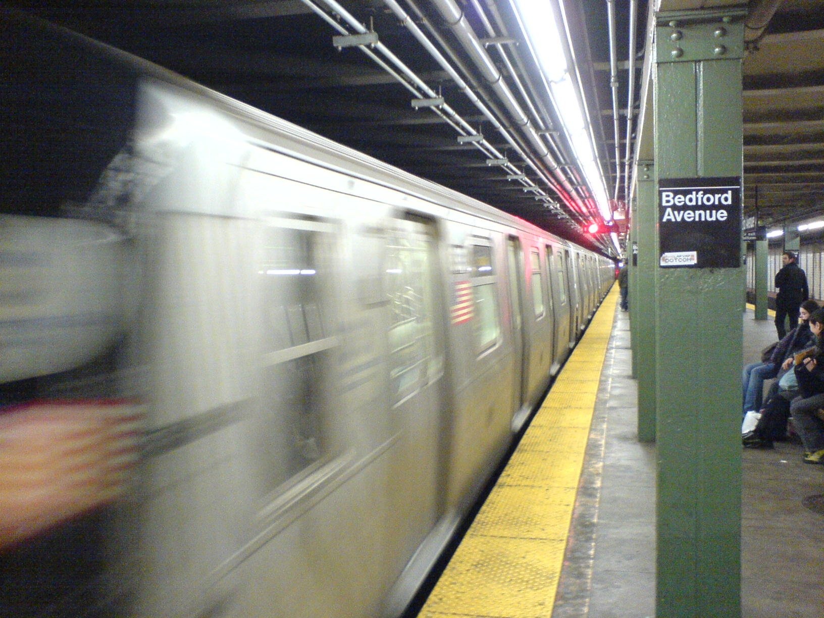 Bedford Avenue station on the BMT Canarsie Line of the New York City Subway.